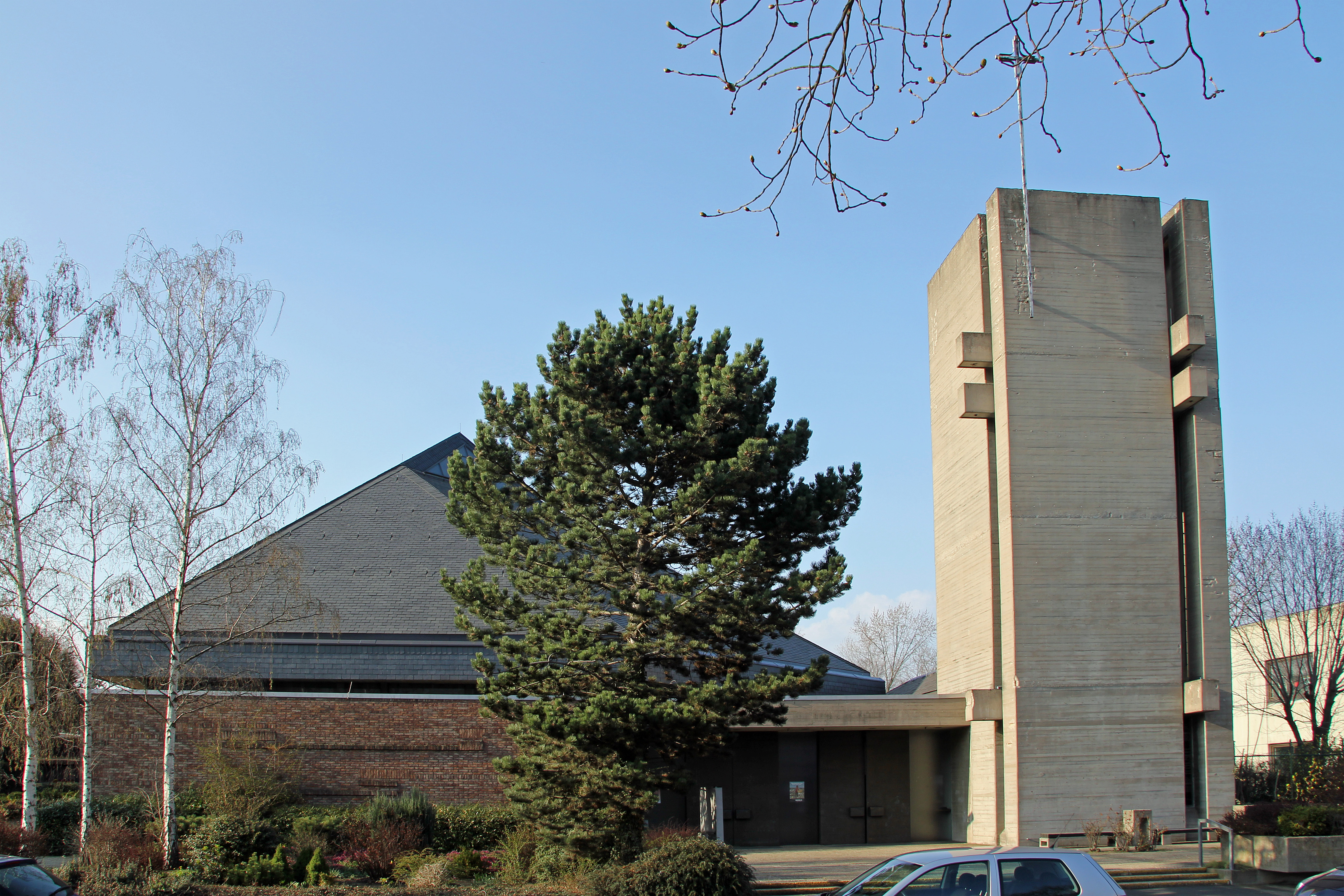 St. Antonius church in Koblenz